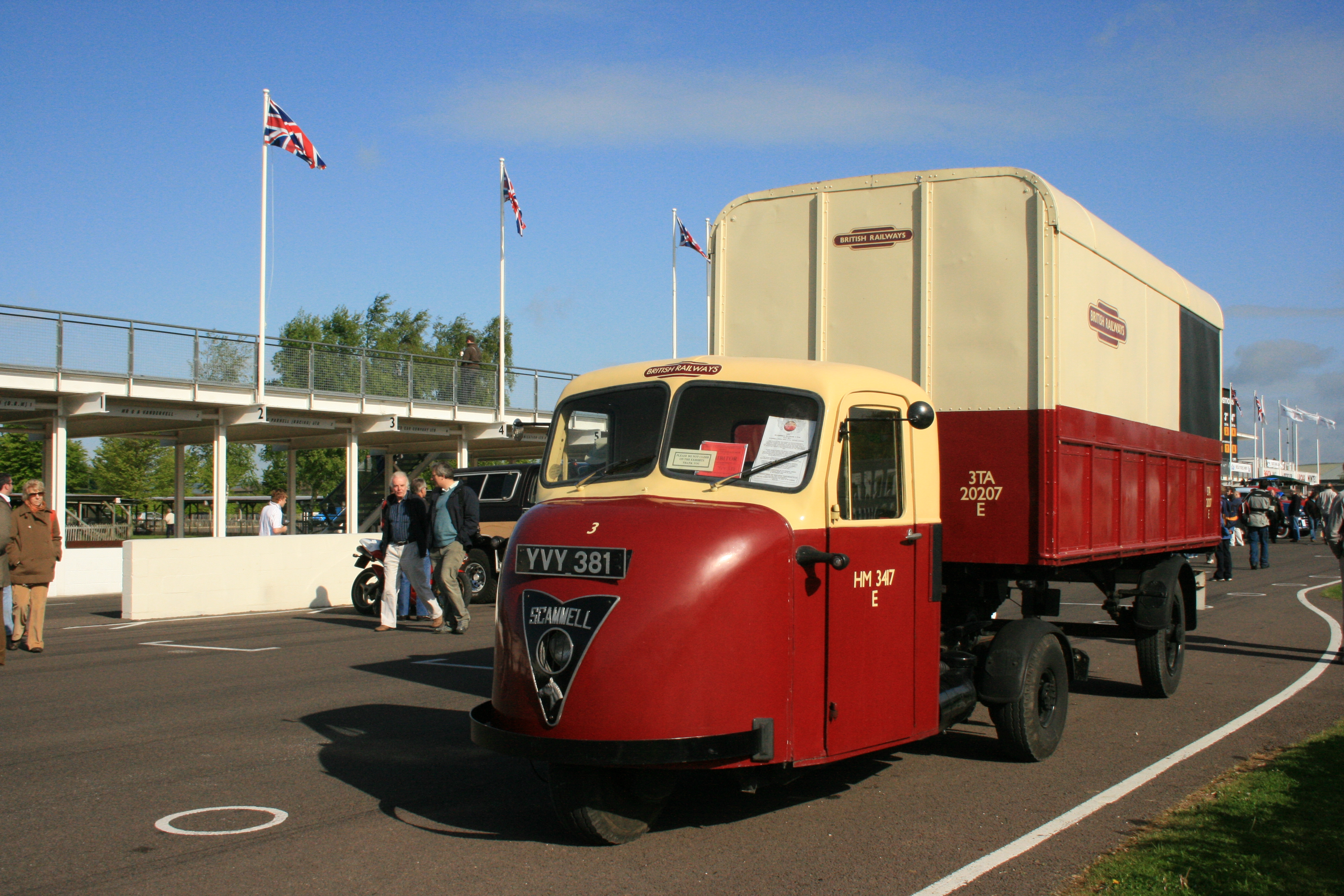 Scammell 3 wheeler truck